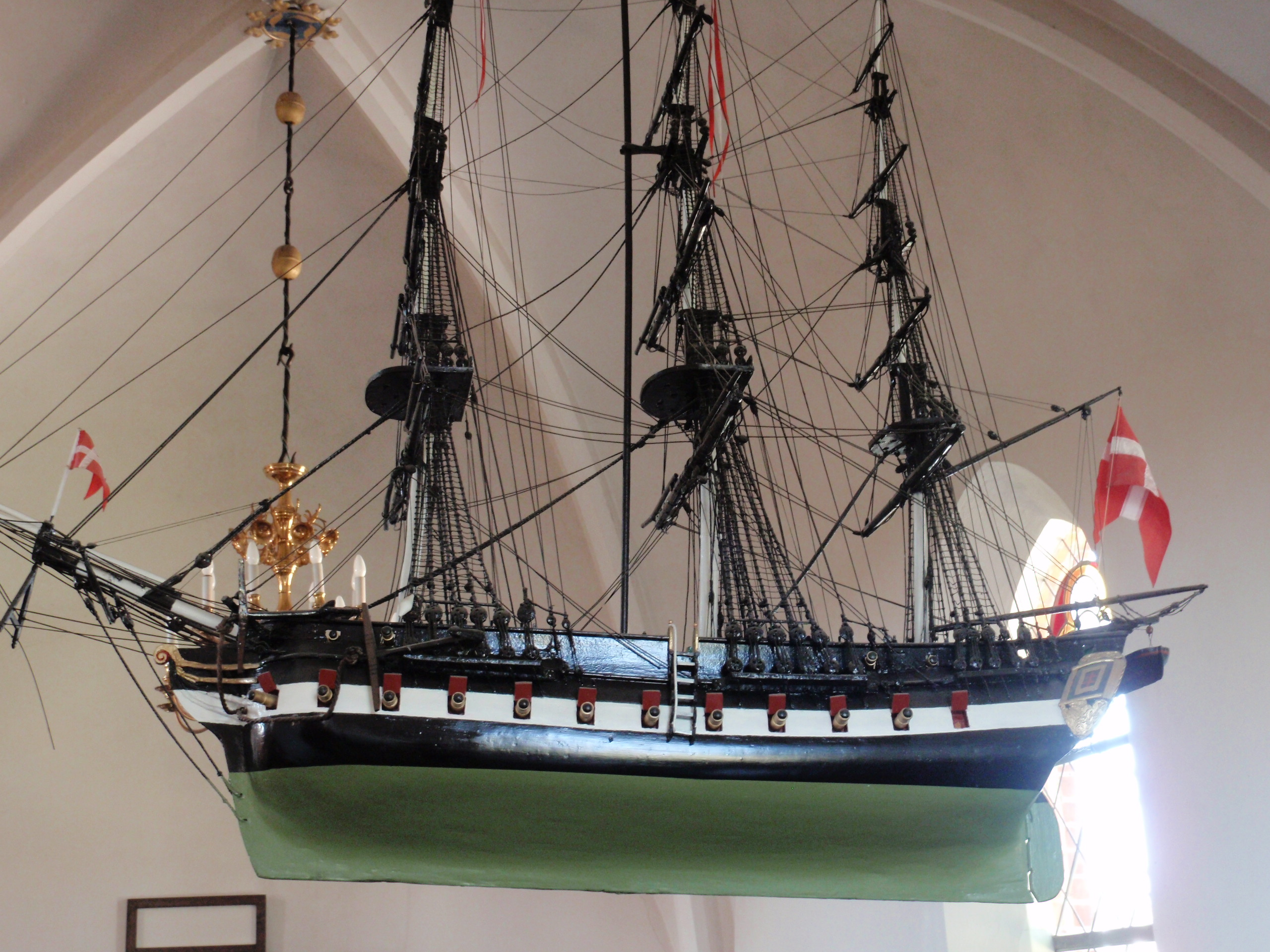 Model ship in Nysted Church